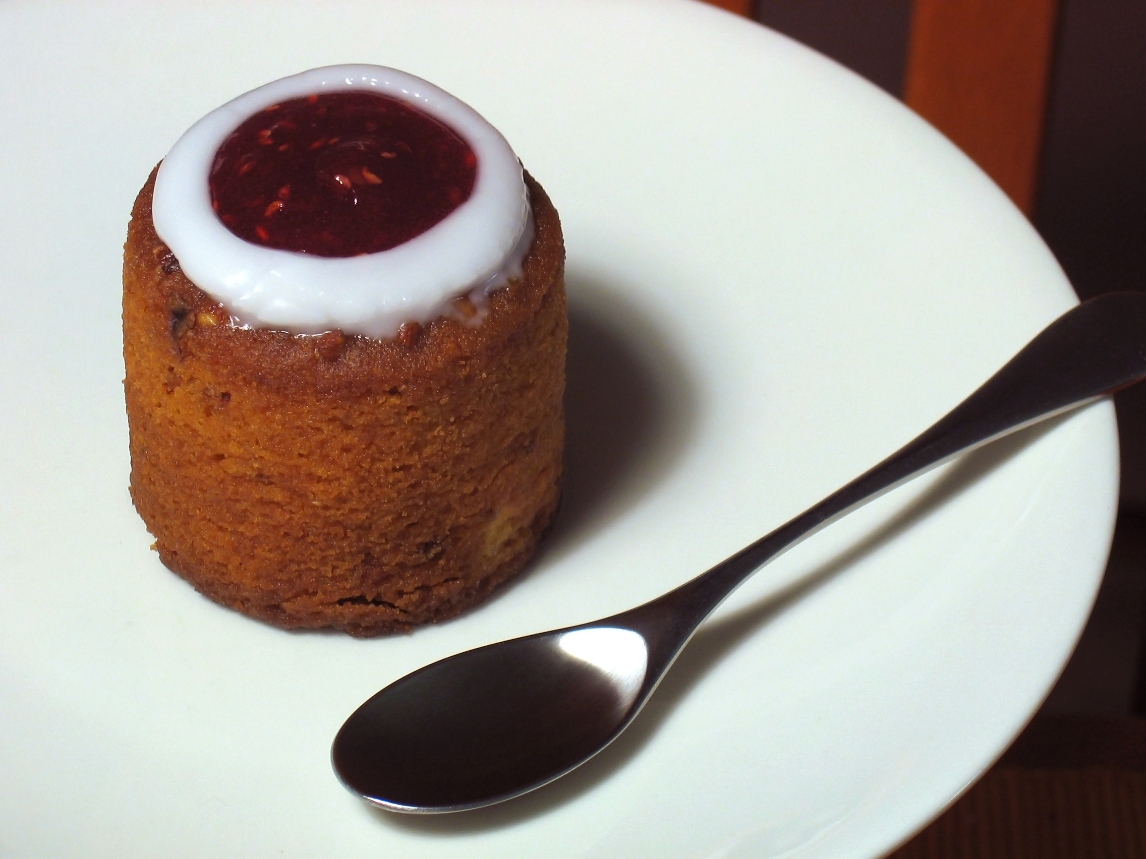 Runeberg's tart is a Finnish pastry named after the Finnish national poet Johan Ludvig Runeberg.